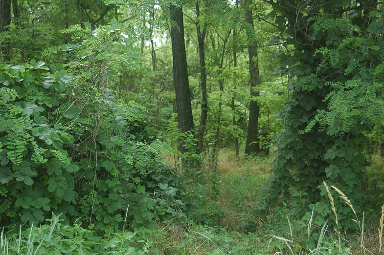 Robinia pseudoacacia forest, Bow lowland, western Slovakia.